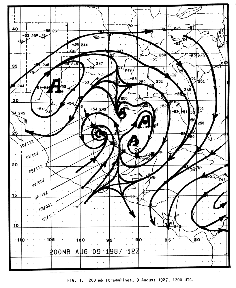 Tropische Storm op 9 augustus 1987